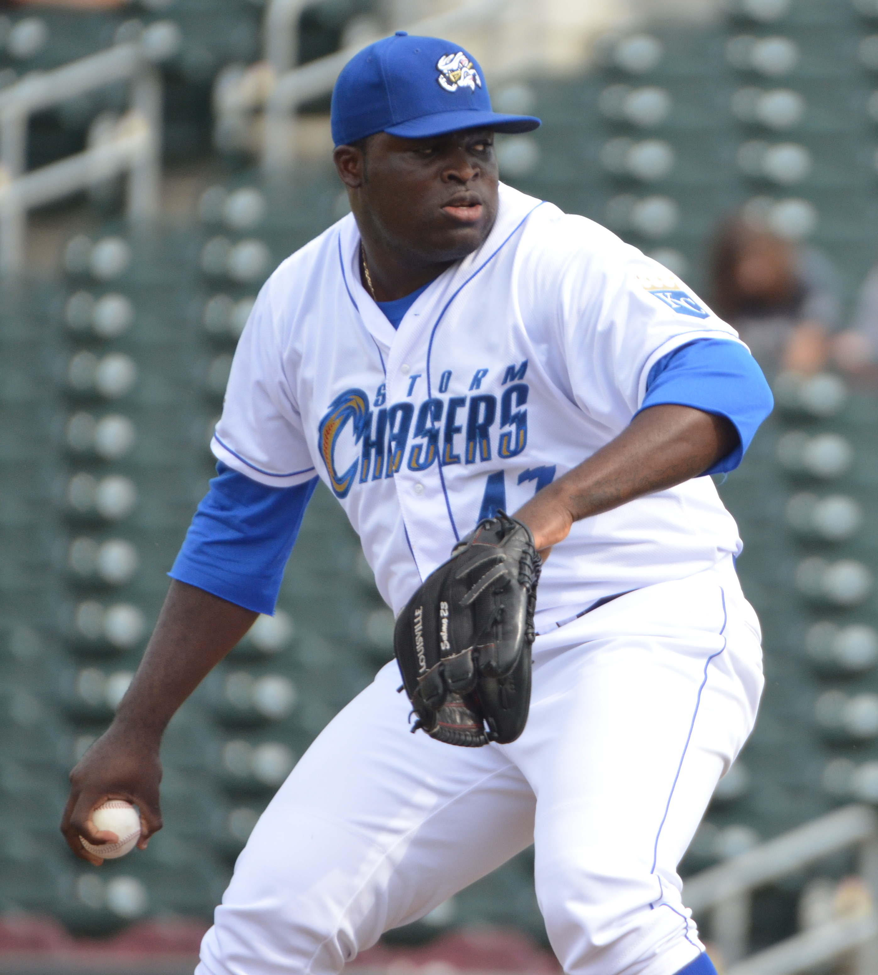 Maike Cleto delivers a pitch for the Omaha Storm Chasers during a 2013 game at Werner Park in Omaha.